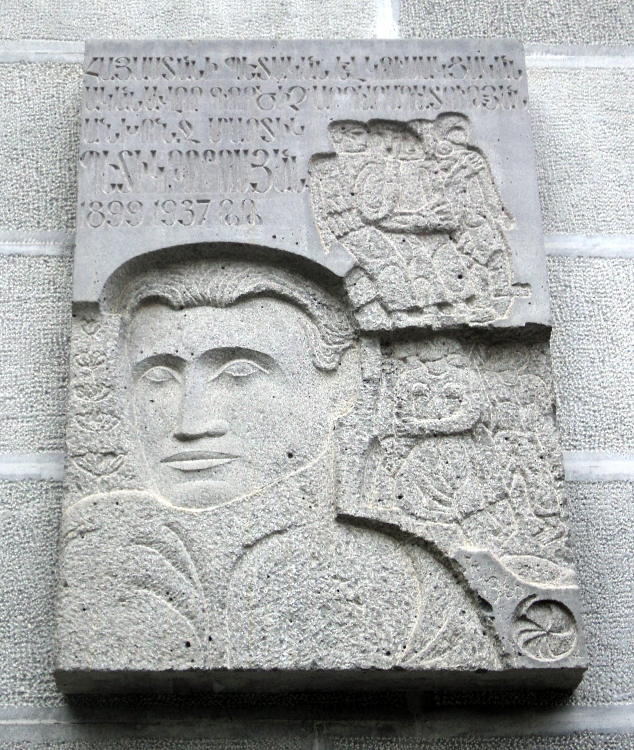 Պետիկ Թորոսյանի հուշատախտակը ՀՀ դատախազության շենքի ճակատին, քանդակագործ` Լևոն Թոքմաջյան, 1971